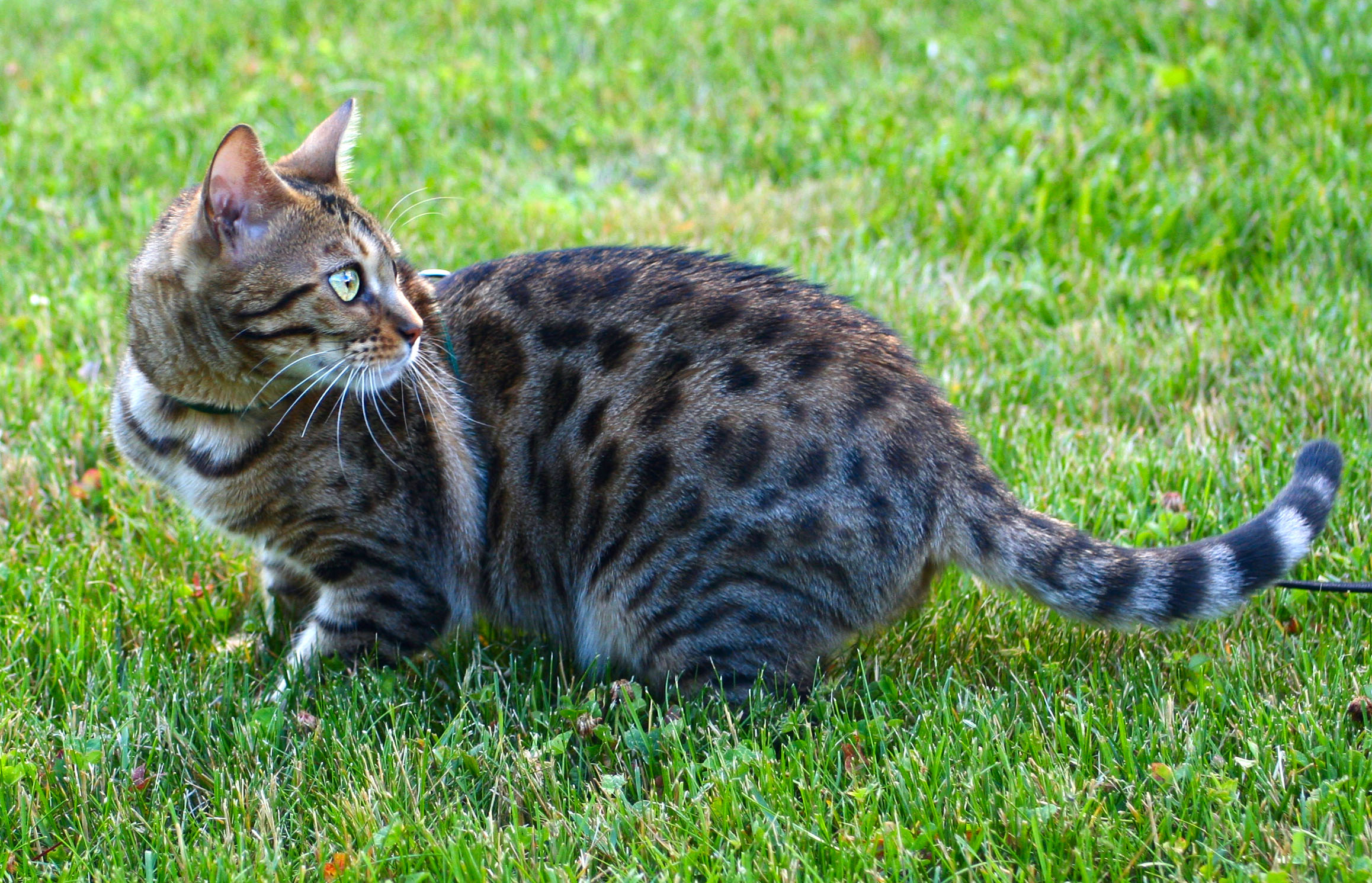 Female bengal cat outdoor on grass